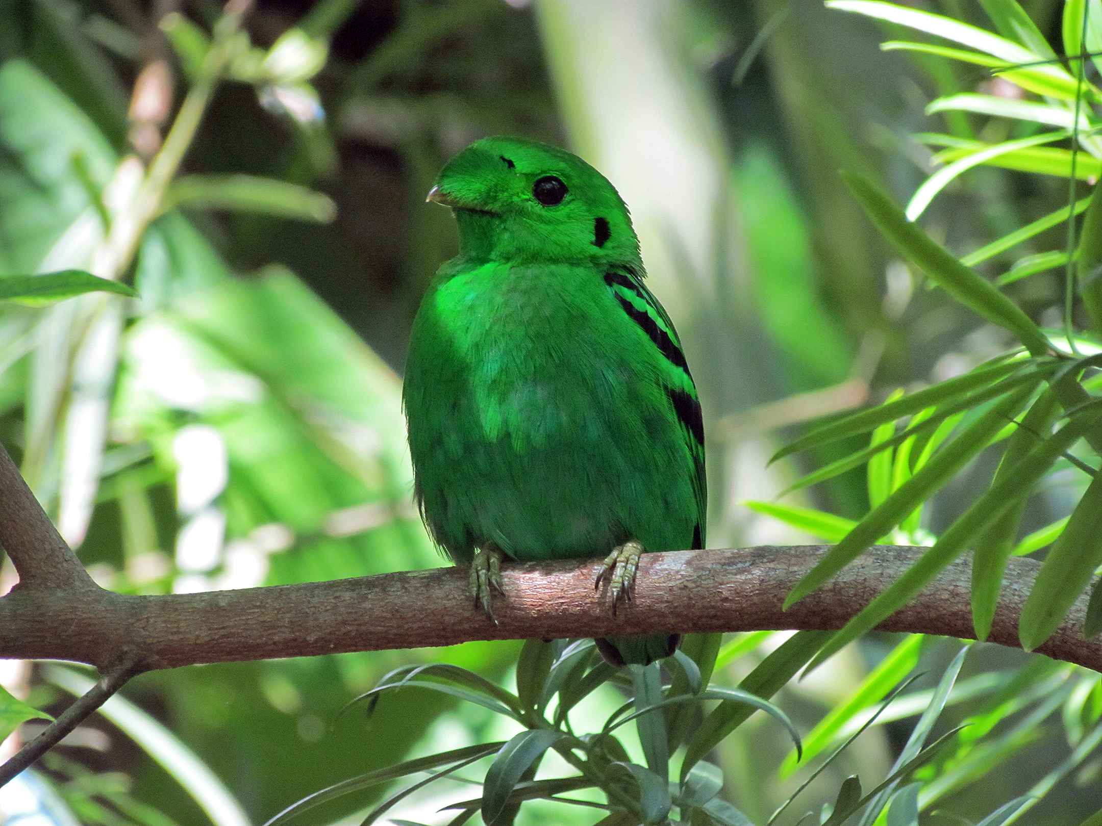 FIELD MARKS-The lesser green broadbill can be identified by its vibrant green plumage. The species is sexually dimorphic, meaning males and females differ in appearance. Males possess a black dot behind each ear as well as black bands across the wings, while females have duller green feathers and lack any black markings.--Range Malaysia and Sumatra--Status Near threatened due to habitat loss